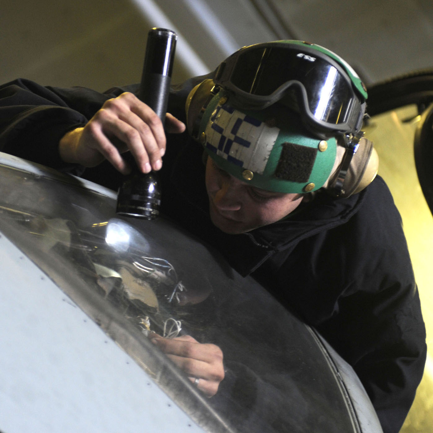 100104-N-6604E-154 ATLANTIC OCEAN (Jan. 4, 2010) Aviation Electrician's Mate Airman Matthew Gould performs a maintenance check on an E/A-6B Prowler assigned to the Patriots of Electronic Attack Squadron (VAQ) 140 aboard the aircraft carrier USS Dwight D. Eisenhower (CVN 69). Dwight D. Eisenhower is on a six-month deployment as a part of the on-going rotation of forward-deployed forces to support maritime security operations.